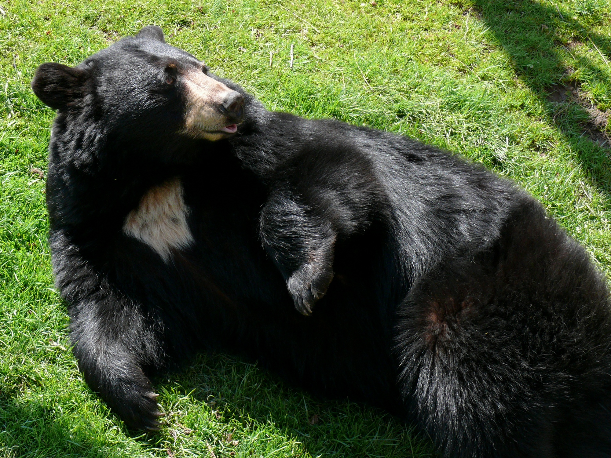 An American Black Bear (Ursus americanus) at the Grandfather Mountain Animal Habitat. Photo taken with a Panasonic Lumix DMC-FZ50 in Avery County, NC, USA. Cropping and post-processing performed with The GIMP.